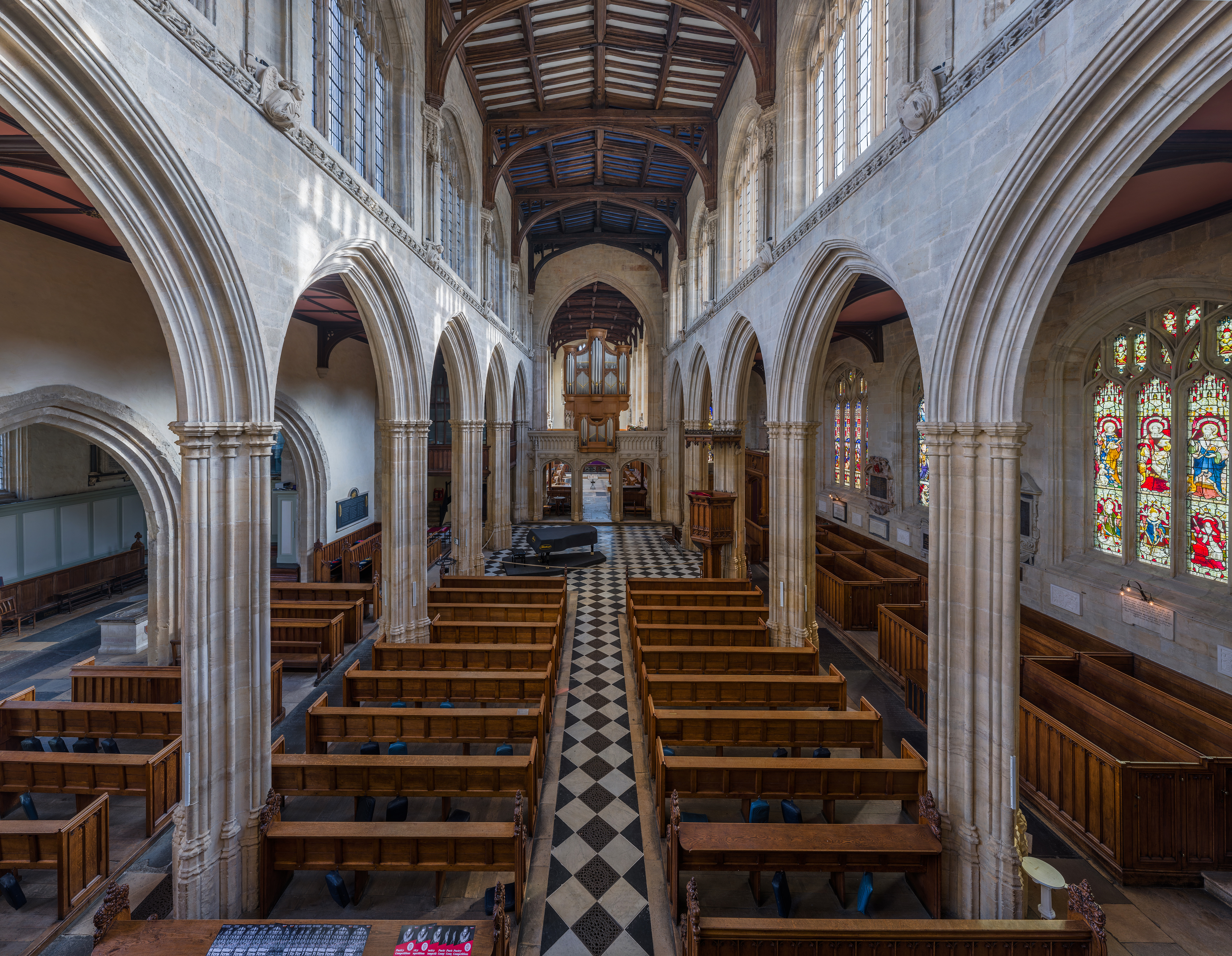 The interior of St Mary's Church viewed from the gallery level looking east in Oxford, England.